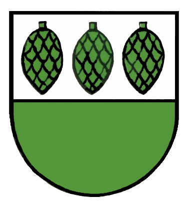 Coat of arms of Schmieh in Bad Teinach-Zavelstein